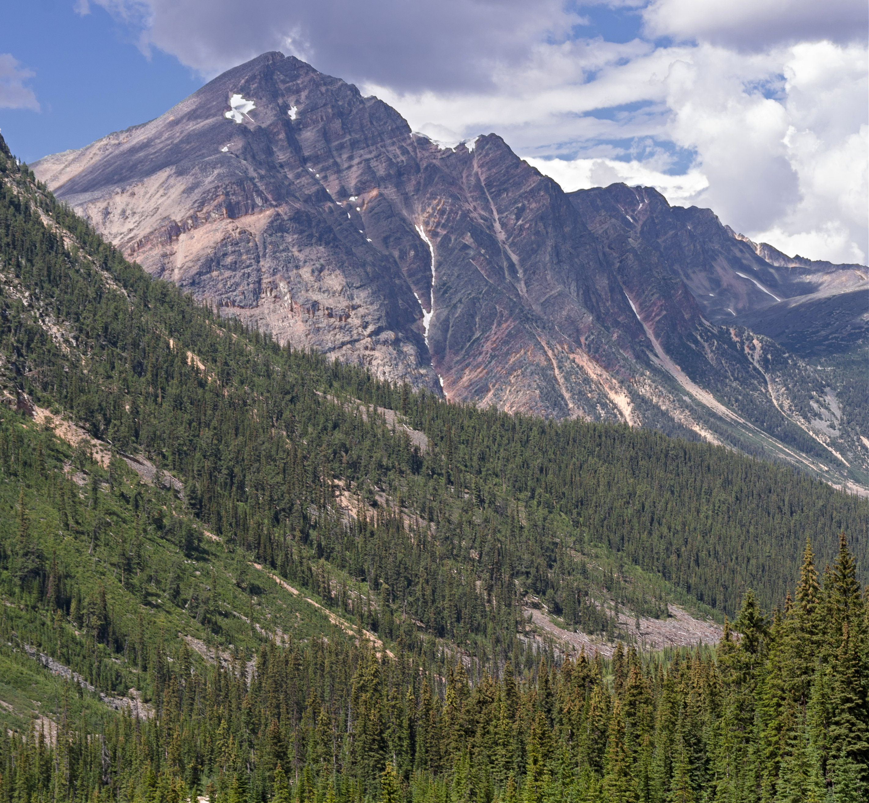 Franchère Peak in Jasper Park, Canada